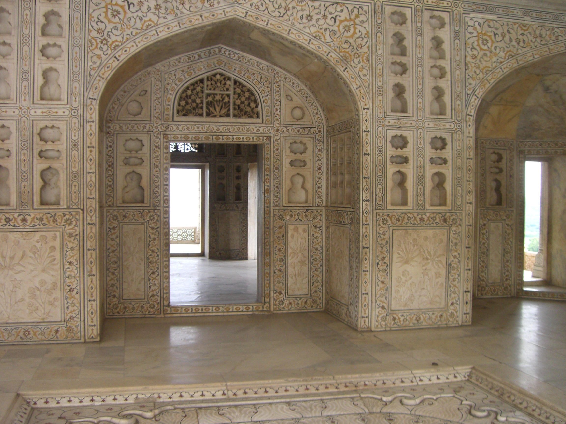 Agra Fort wall and floor is white marble